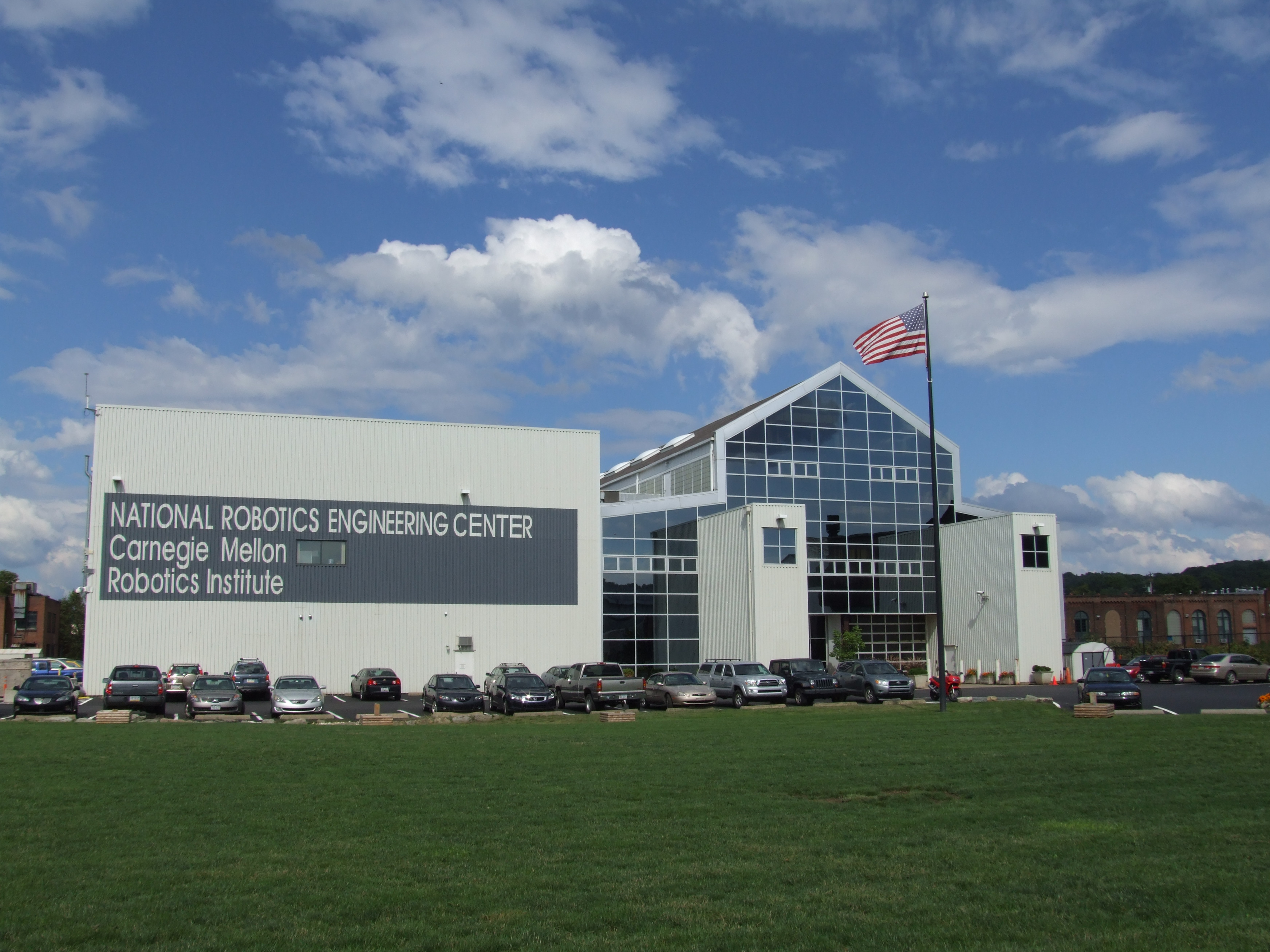 Robotics research and development